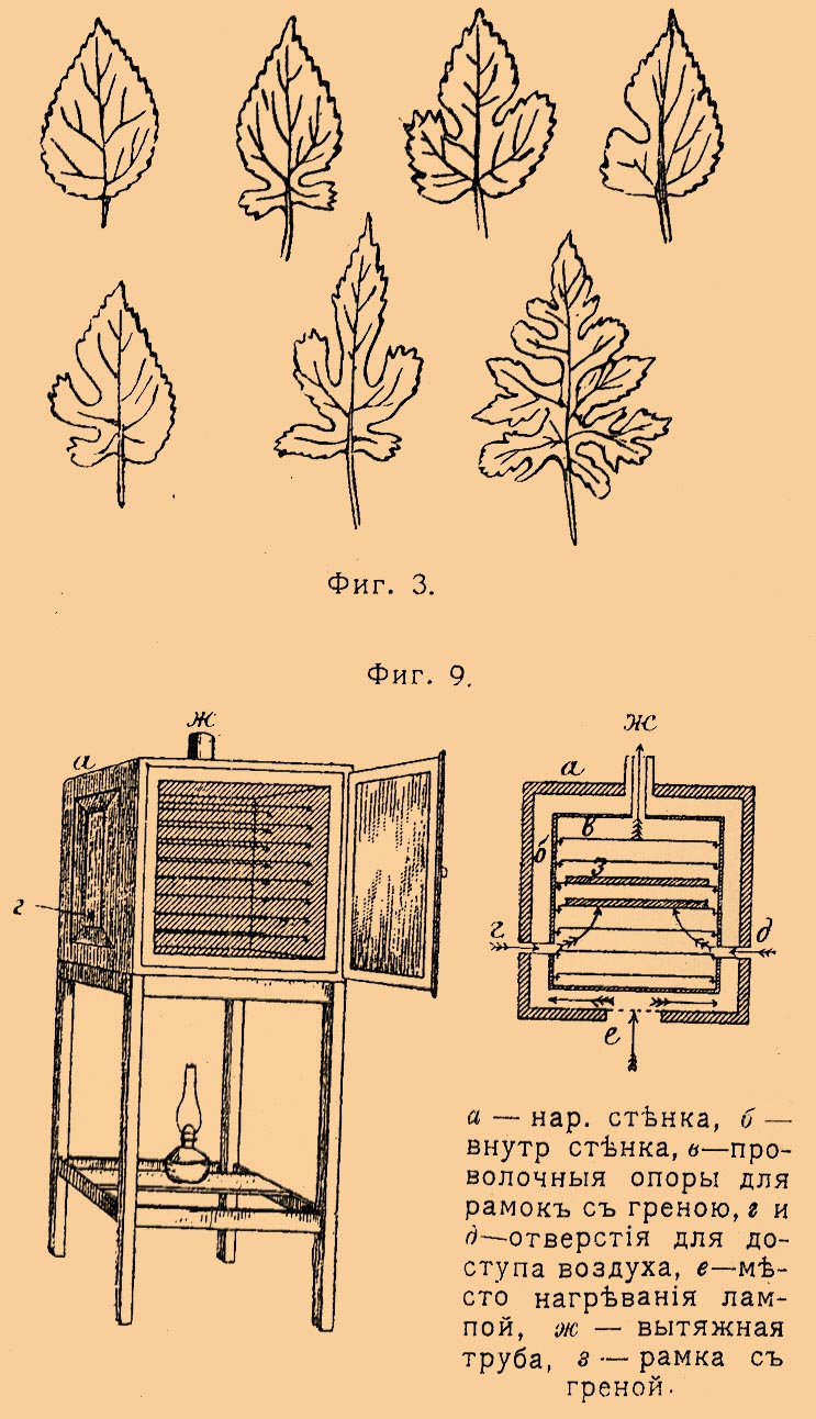 Illustration from Brockhaus and Efron Encyclopedic Dictionary (1890—1907)